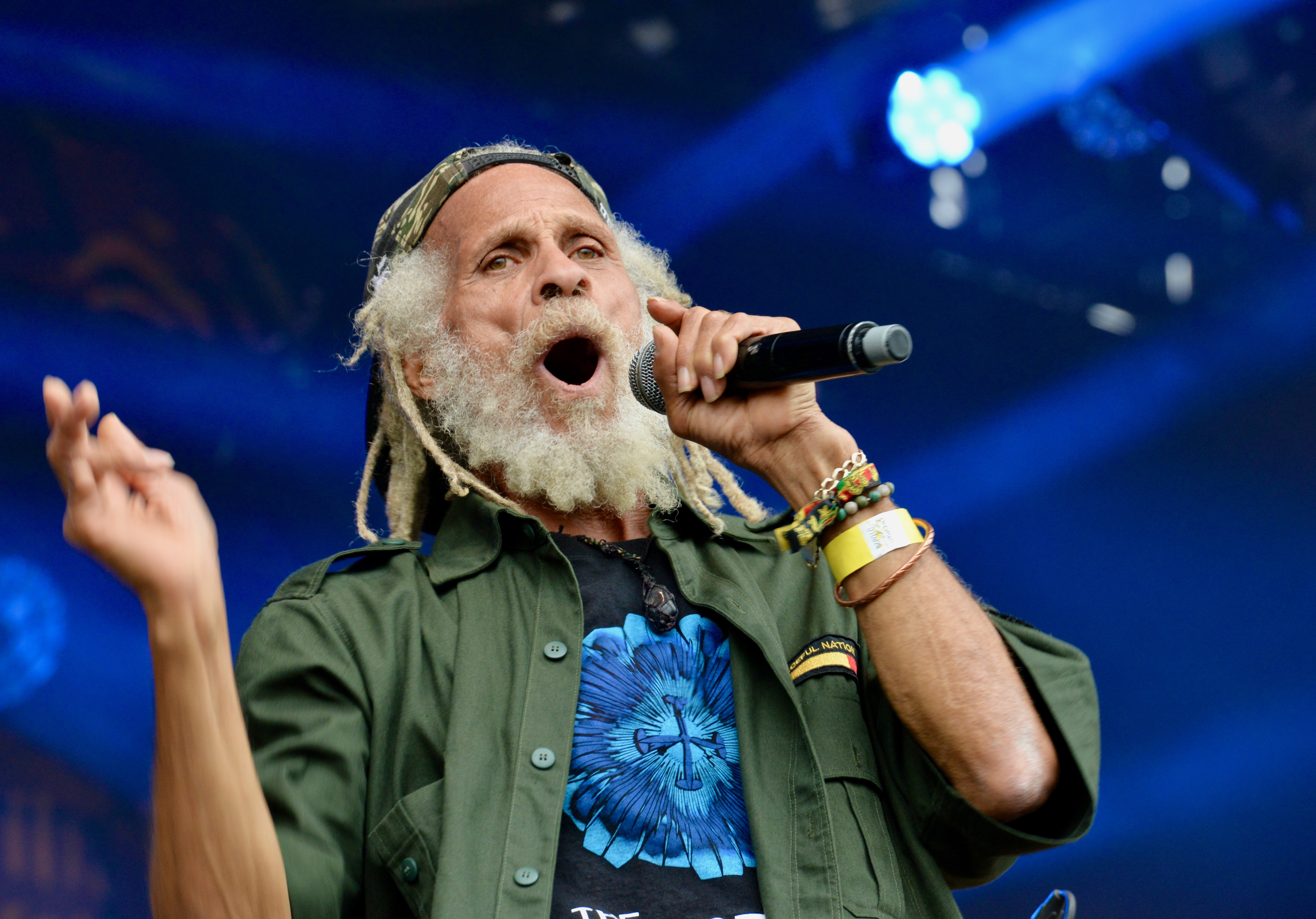 Cedric Myton performing with The Congos, Reggae Geel, August 2 2019, Belgium.